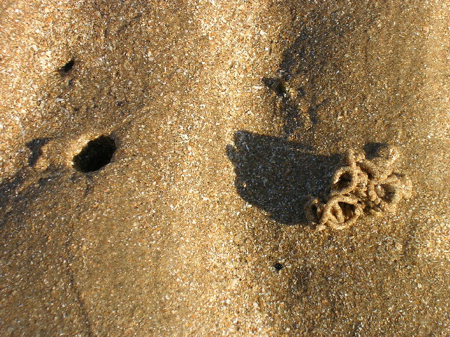 Lugworm cast, Red Wharf Bay, Isle of Anglesey. A close up of a lugworm cast, a typical feature of most beaches, everywhere. The worm occupies a "U" shaped burrow, with the tail situated below the cast and the head end under the depression to the left. Taken from SH531813.